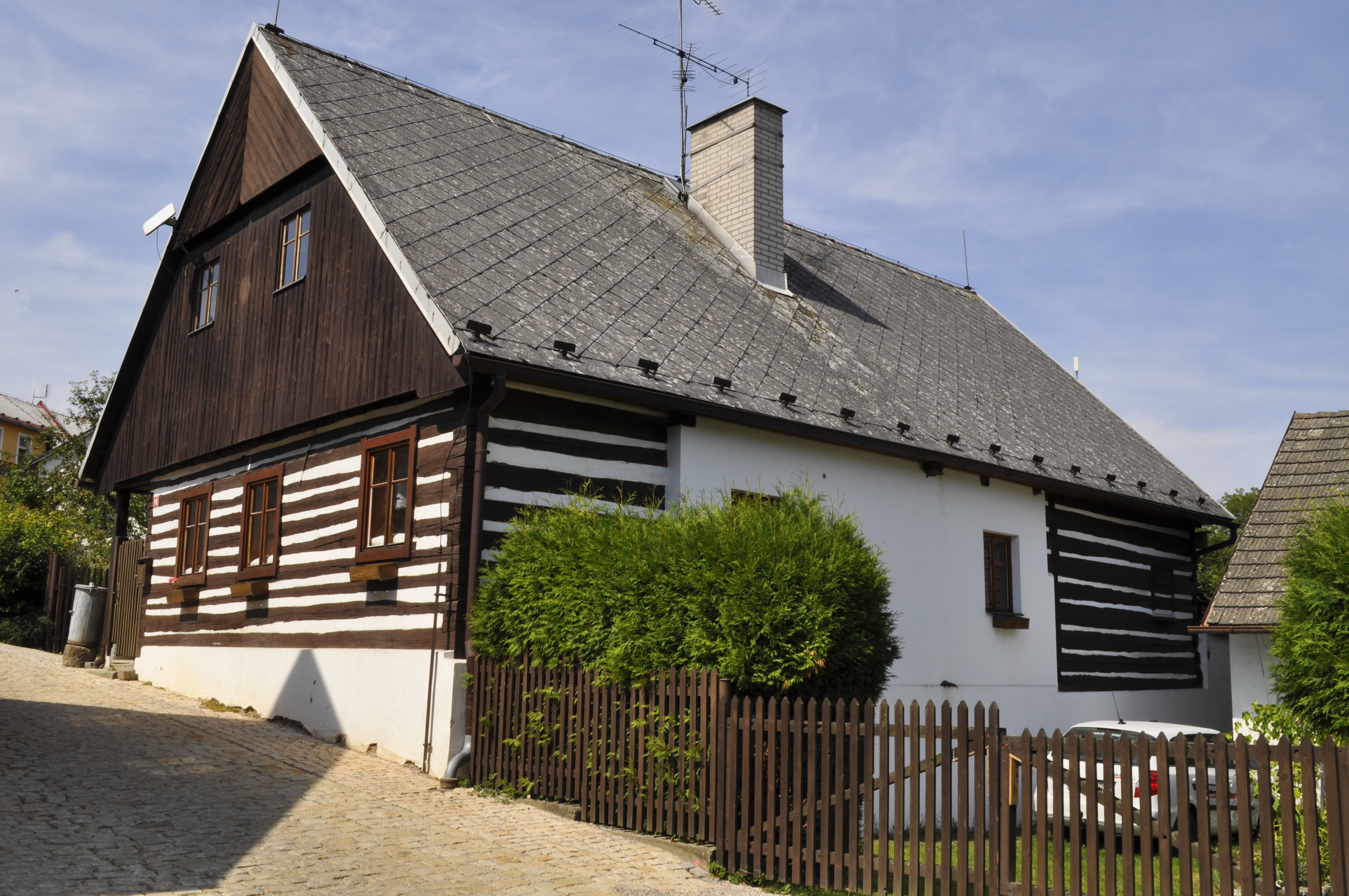 Country House Kuks 15